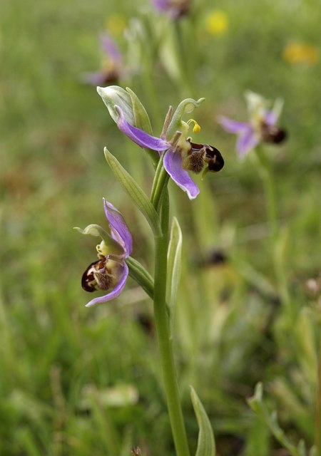 Bee orchid, former Barton Tip Ophrys apifera, locally abundant on the levelled landfill site. These specimens are near Barton Hill Way.